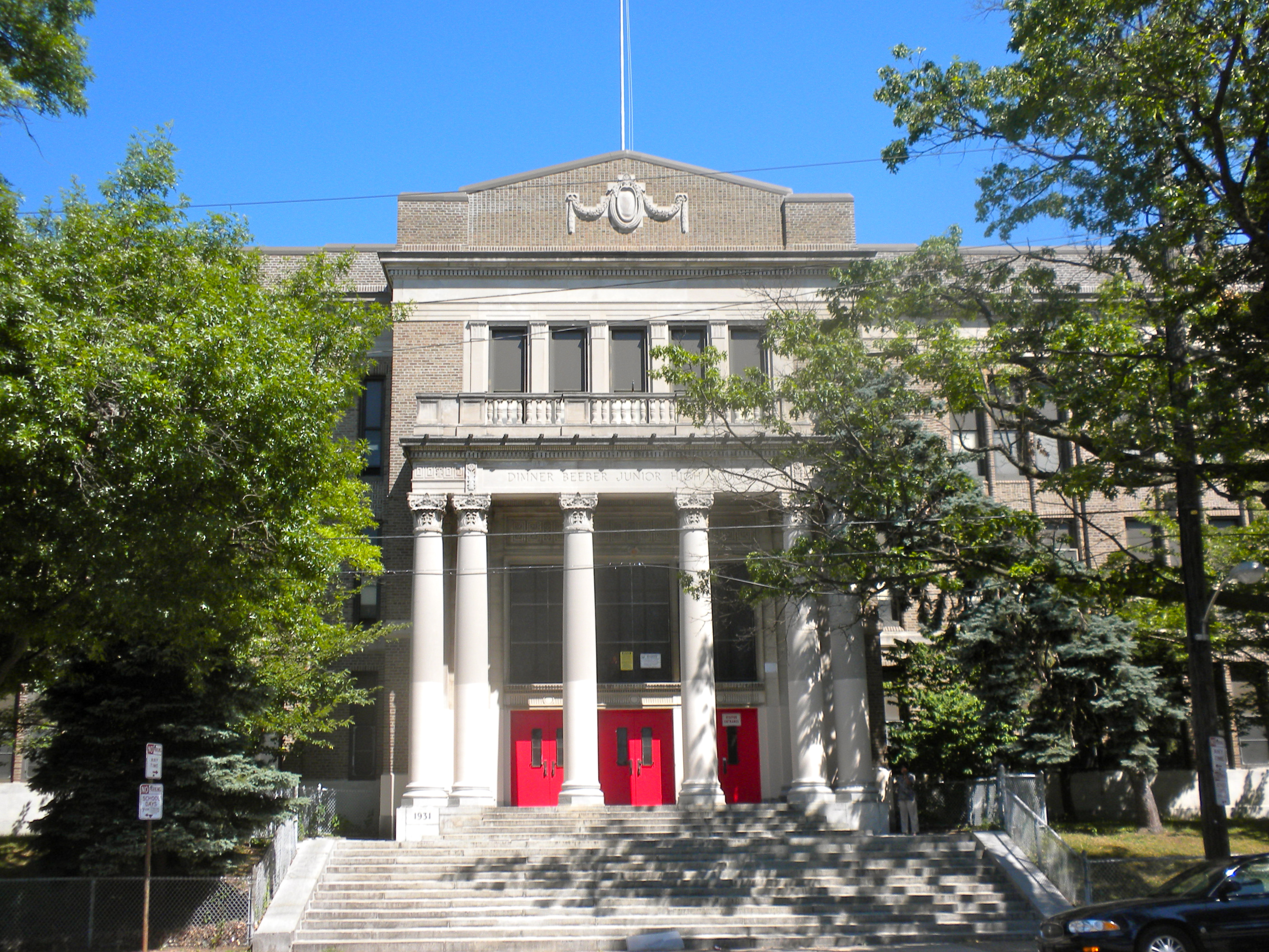 Dimner Beeber Junior High School on the NRHP since November 18, 1988. At 5925 Malvern Avenue in West Parkside neighborhood of West Philadelphia.